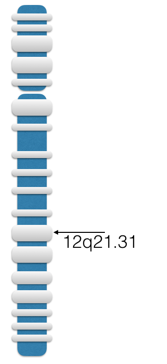 LRRIQ1 is located on chromosome 12q21.31.